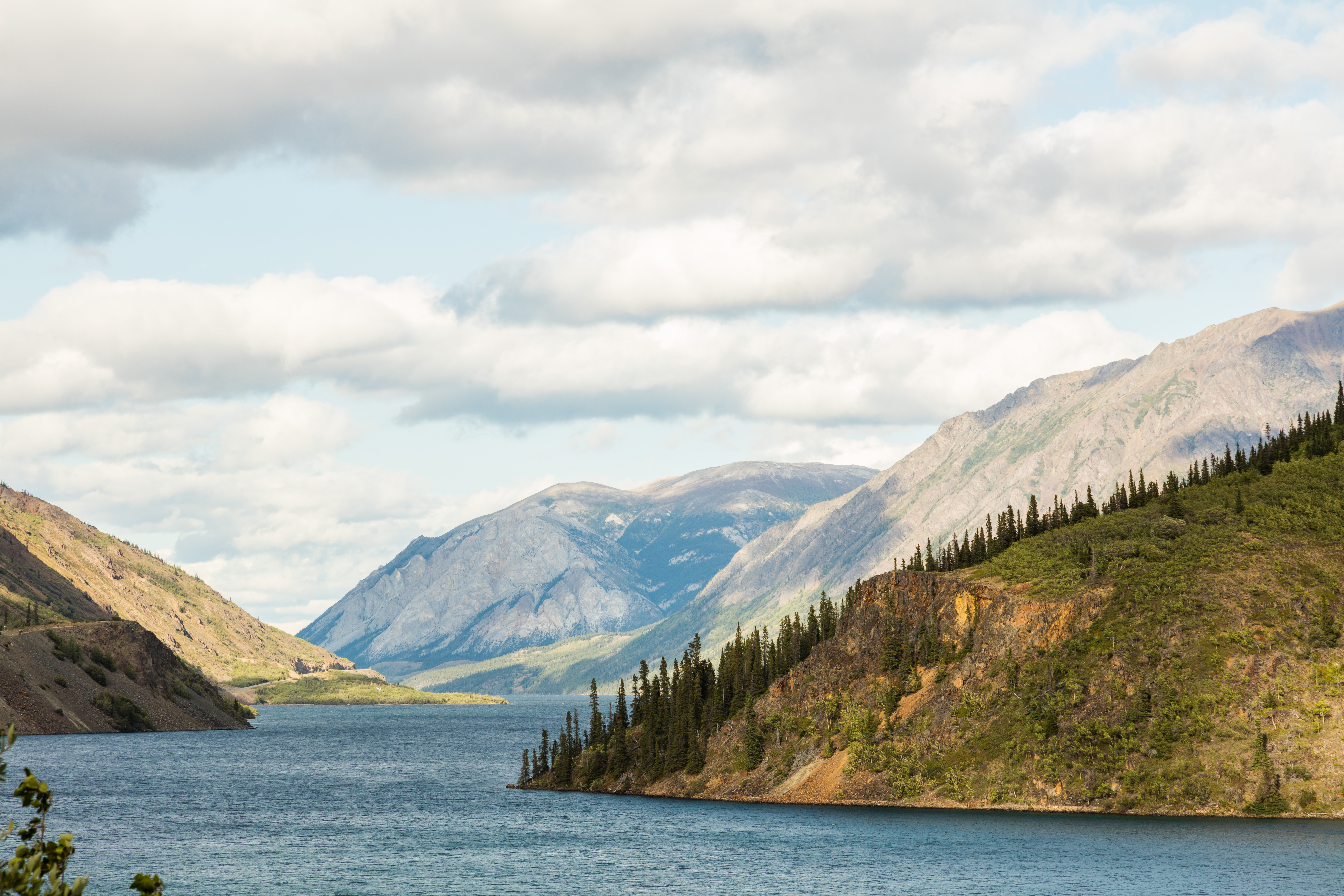 Tutshi Lake, British Columbia, Canada